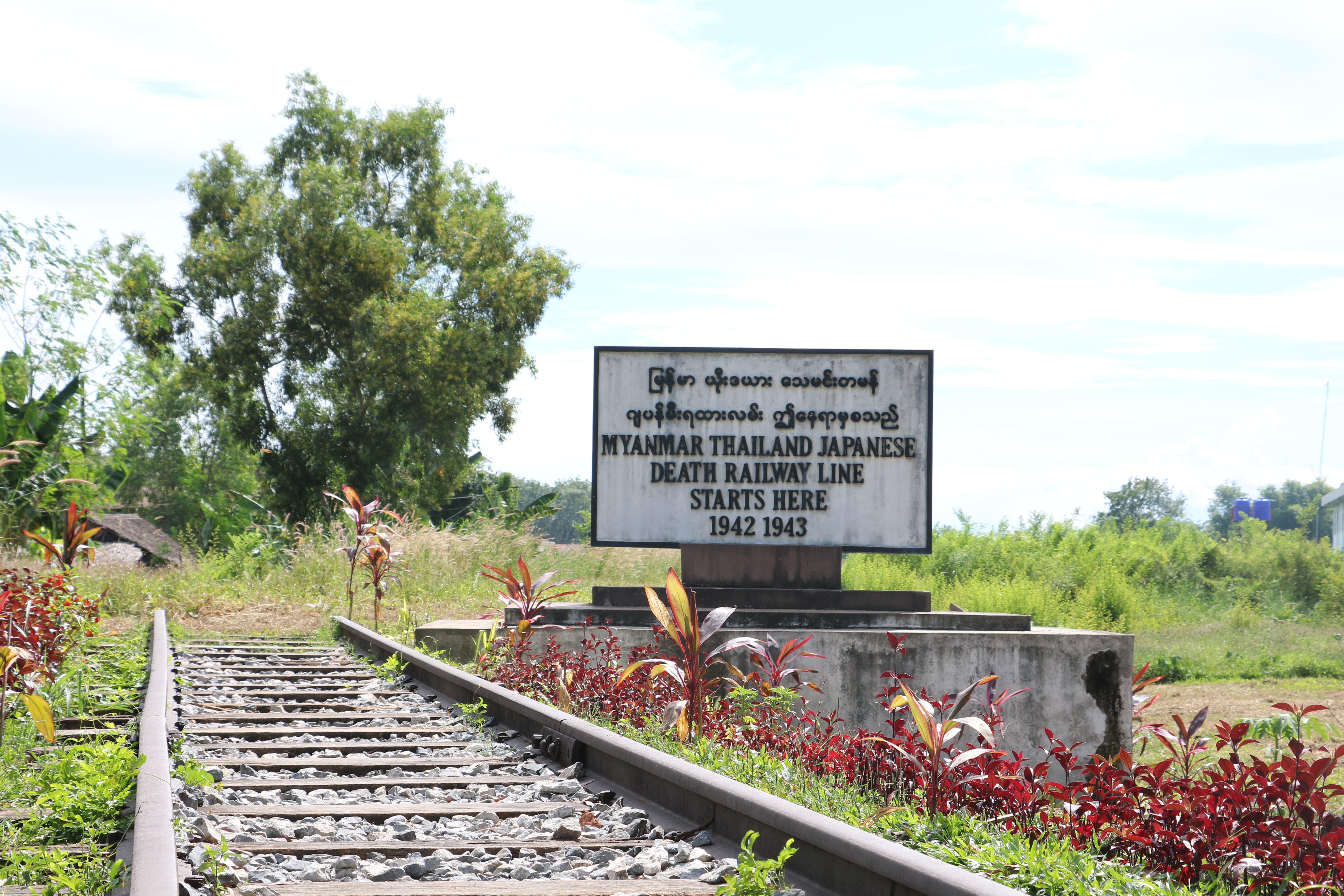 Death Railway Line _ Mawlamyine